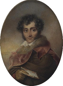 Portrait of Charles-Victor Prévost d'Arlincourt (1788-1856)